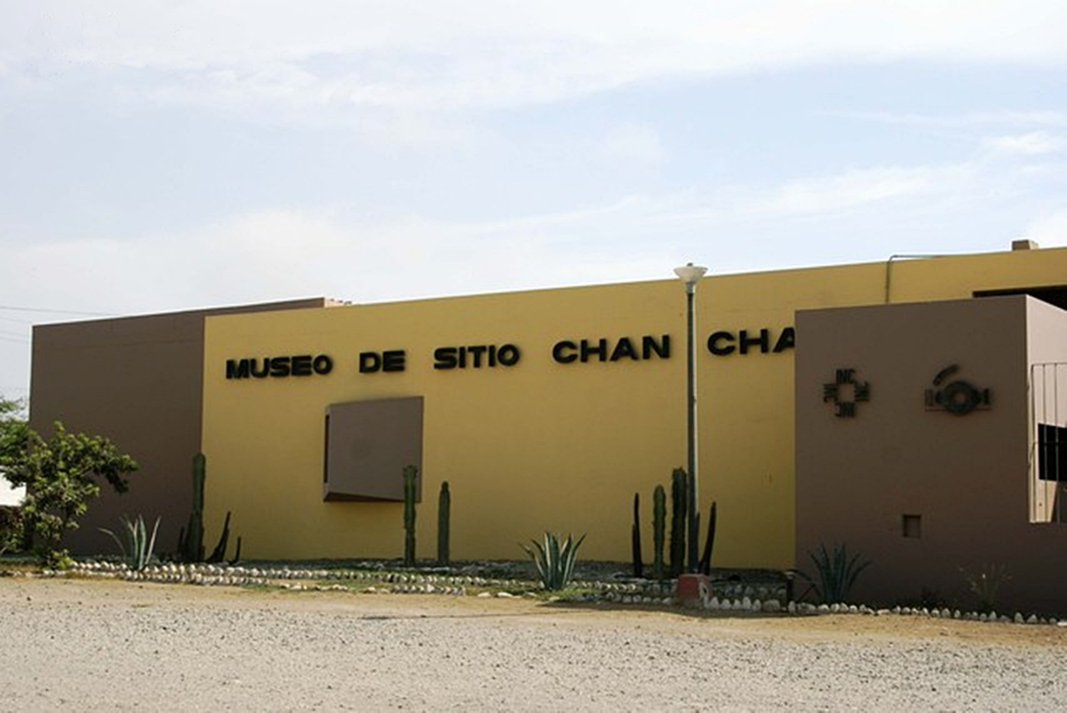 Museo de Sitio de Chan Chan